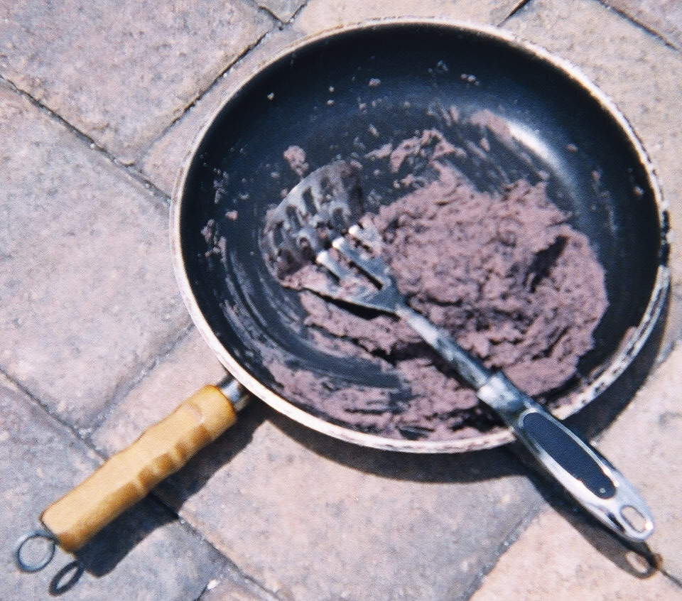 Refried beans (frijoles refritos). Recipe here